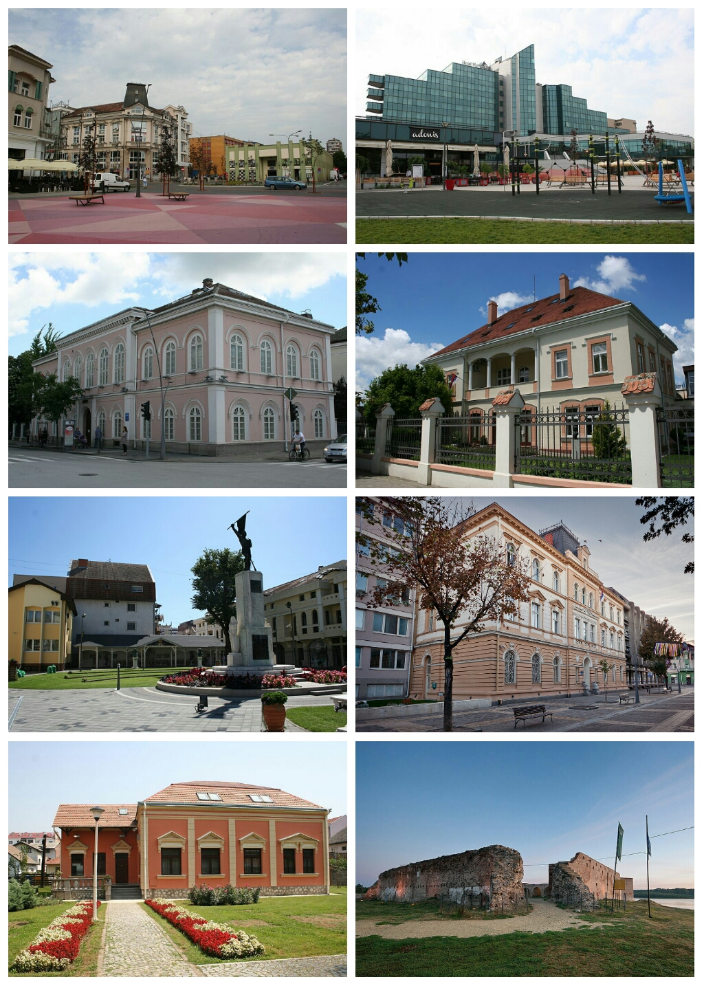 Šabac- photomontage (left- The central city square, National Museum Šabac, A monument and a skeleton in the port of the Sabor church in Šabac, Dunjić house) and (right- Hotel ,,Freedom", Šabac library, Courthouse in Šabac, Šabac Fortress)